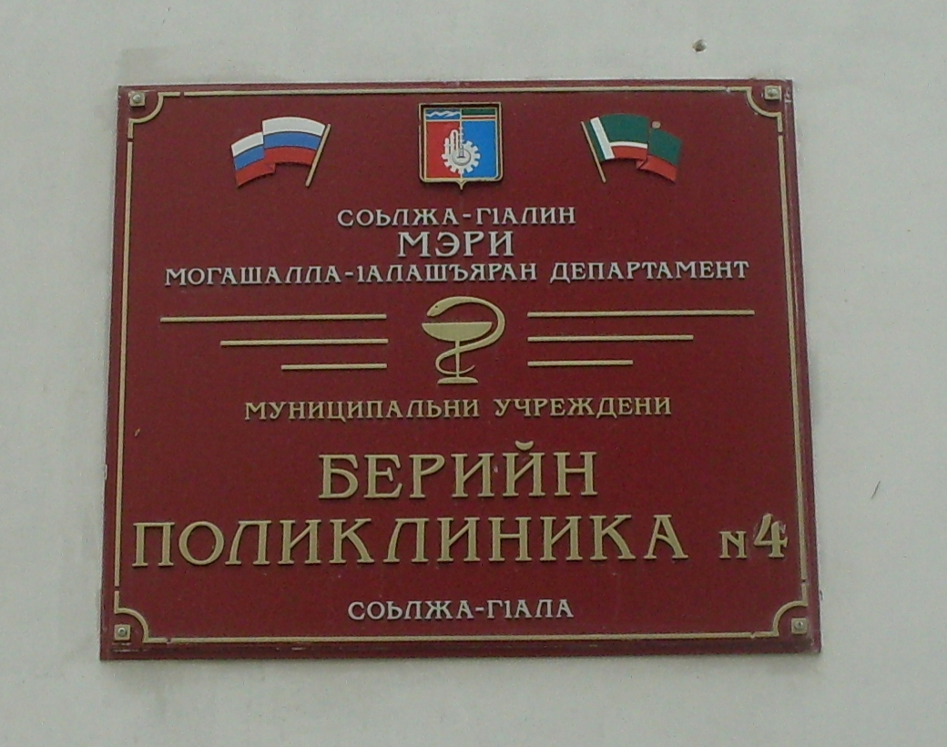 Plate with inscription in Chechen language on a polyclinic in Grozny, Chechnya.